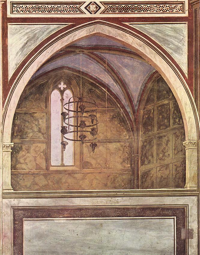 Apsis, east wall, 2nd register right